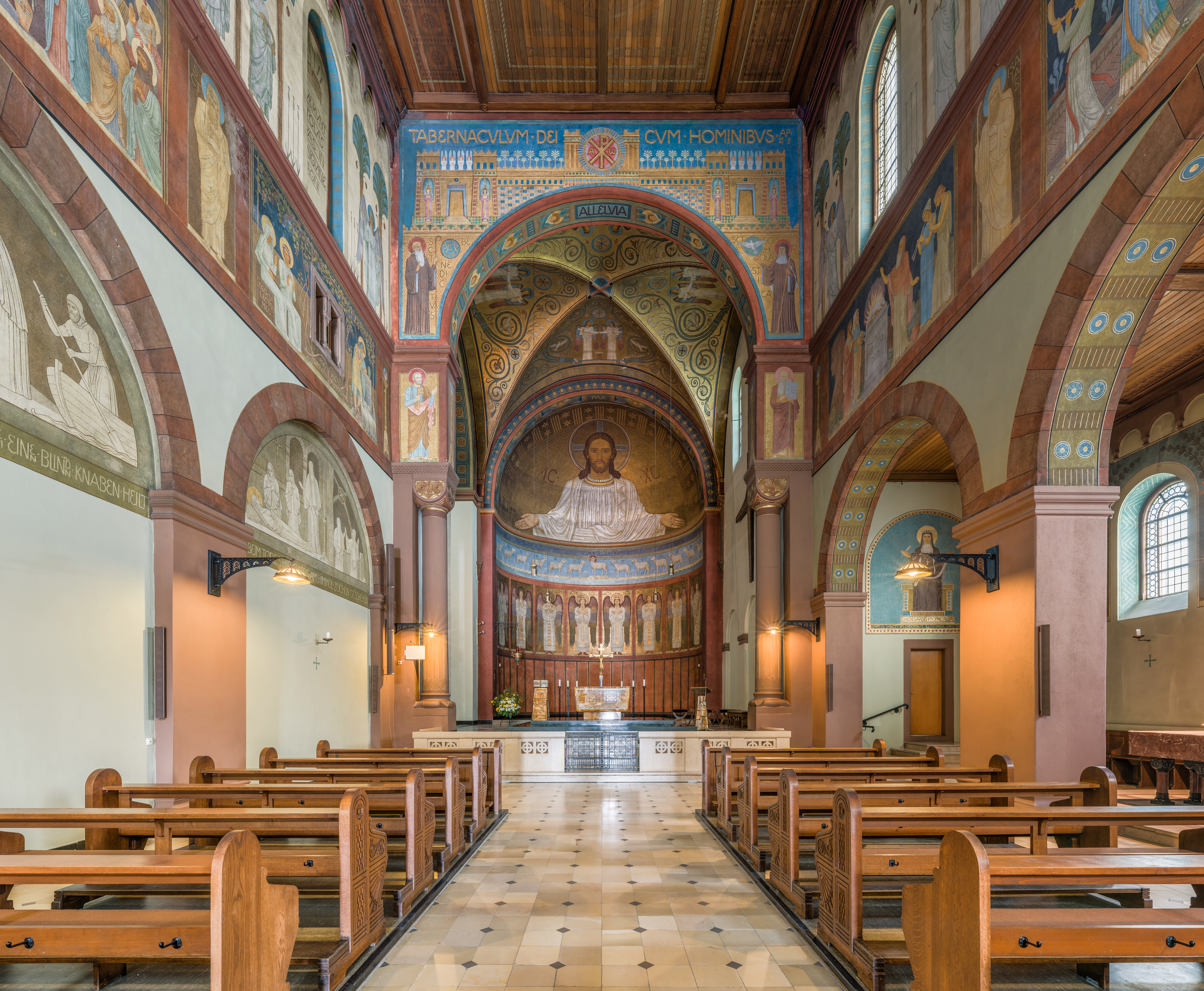 The nave and the sanctuary of Eibingen Abbey, aka Abtei St. Hildegard. Despite the long history of the Abbey, the actual church was only built in 1904.